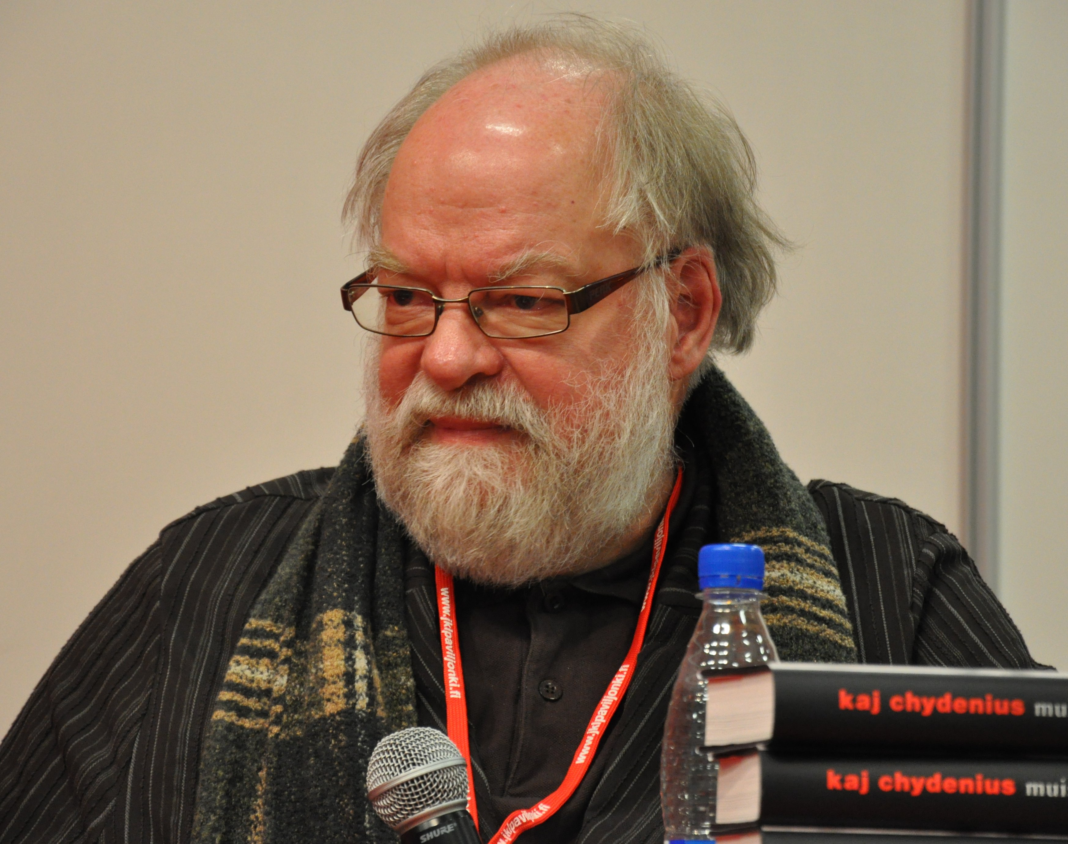 Finnish composer Kaj Chydenius at the Jyväskylä Book Fair 2009.